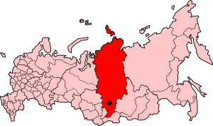 Russia Krasnoyarsk City 2008-03-01